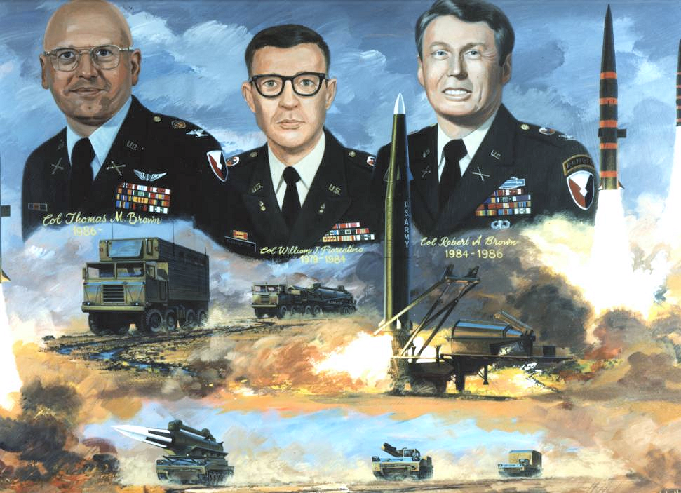 Pershing program managers (1979–1986)